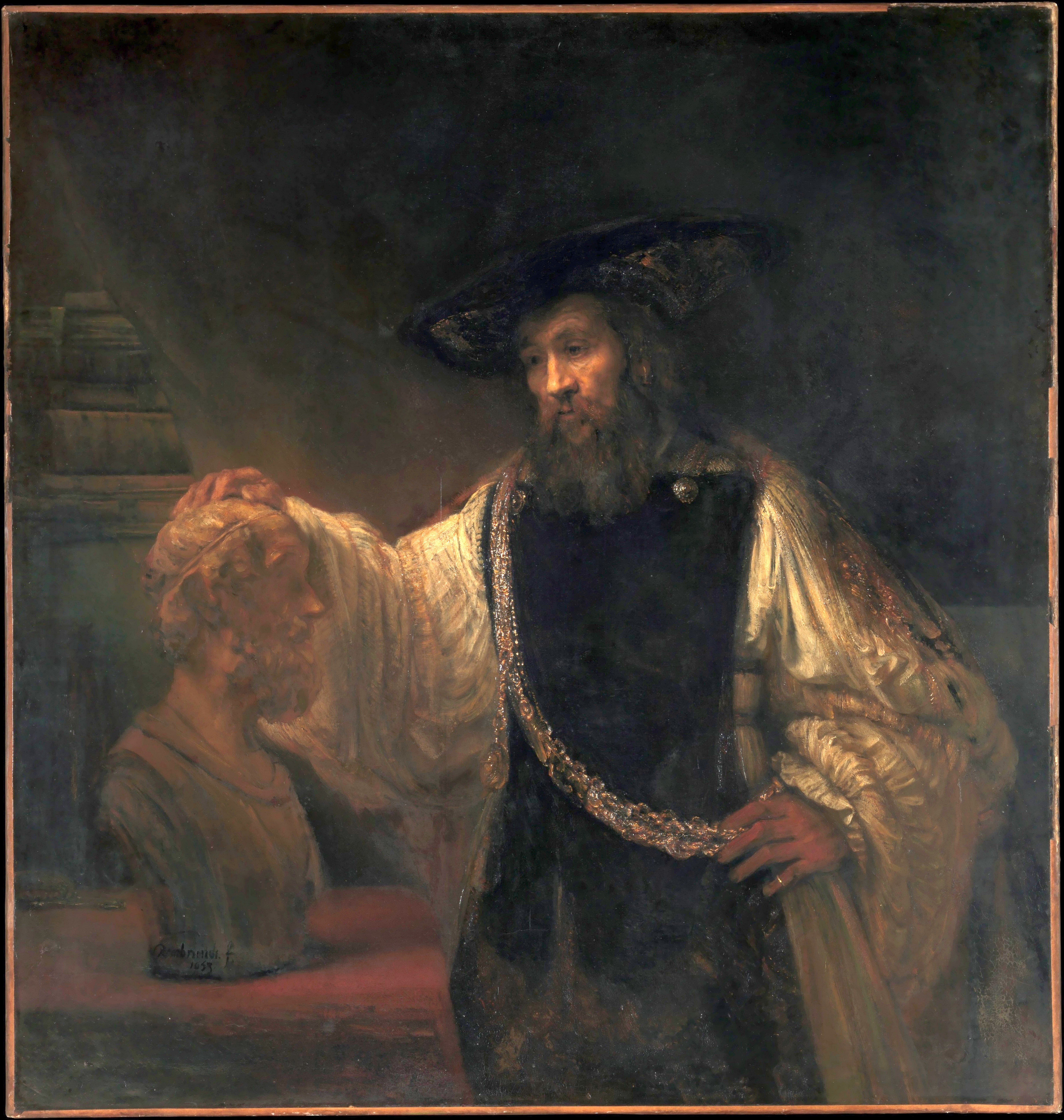 Part of a series of seven paintings, which also included Homer by Rembrandt (File:Rembrandt Harmensz. van Rijn 061.jpg), Alexander the Great by Rembrandt (lost), The Cosmographer by Guercino (lost), Dionysius of Syracuse by Matia Preti (lost), The Philosopher Archita Tarantino by Salvator Rosa (lost) and The Philosopher or Jerome by Giacinto Brandi (lost).